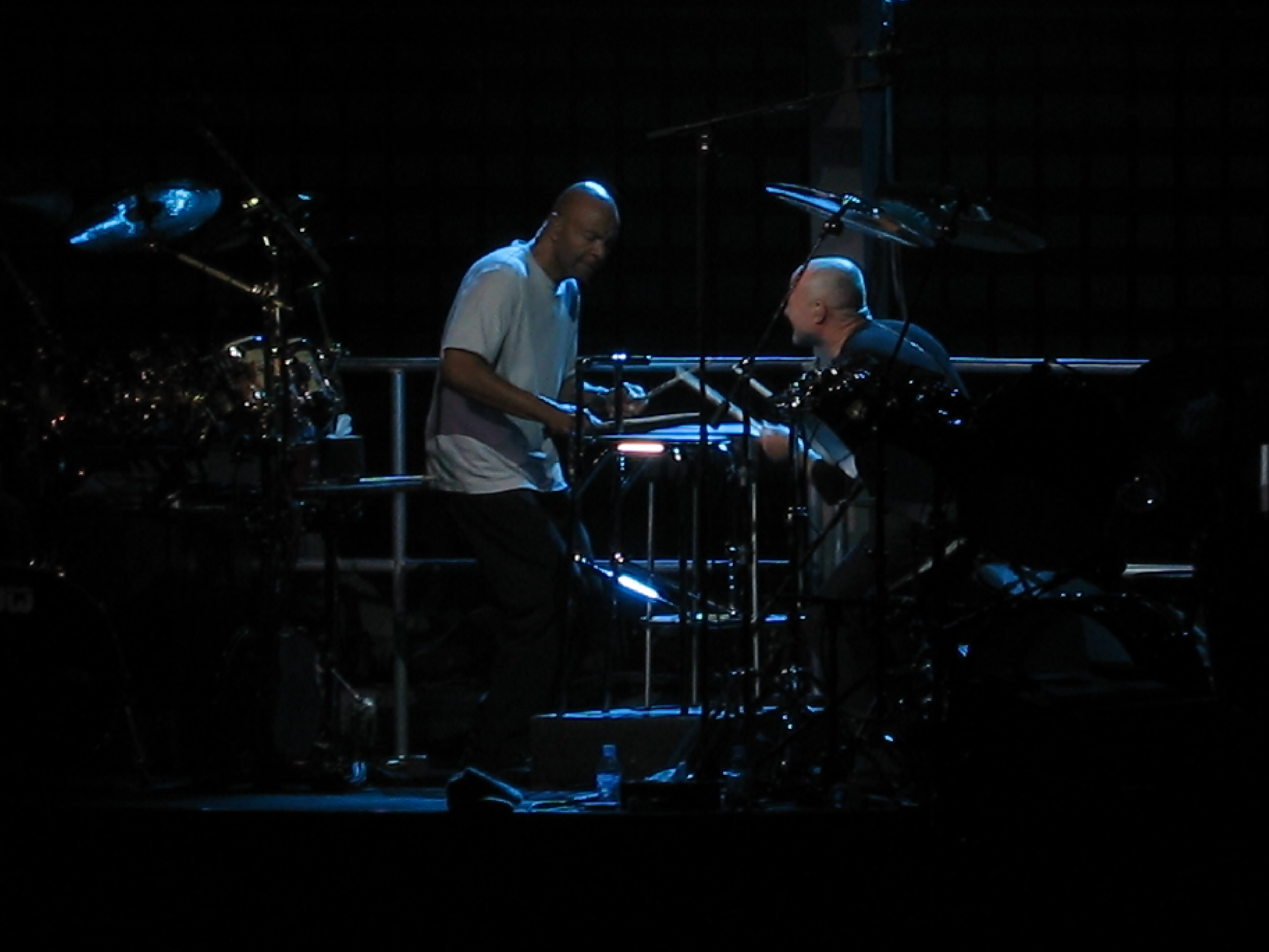 Genesis concert at the Wachovia Center, Philadelphia, Pennsylvania, USA. Performing a drum duet between Chester Thompson and Phil Collins.